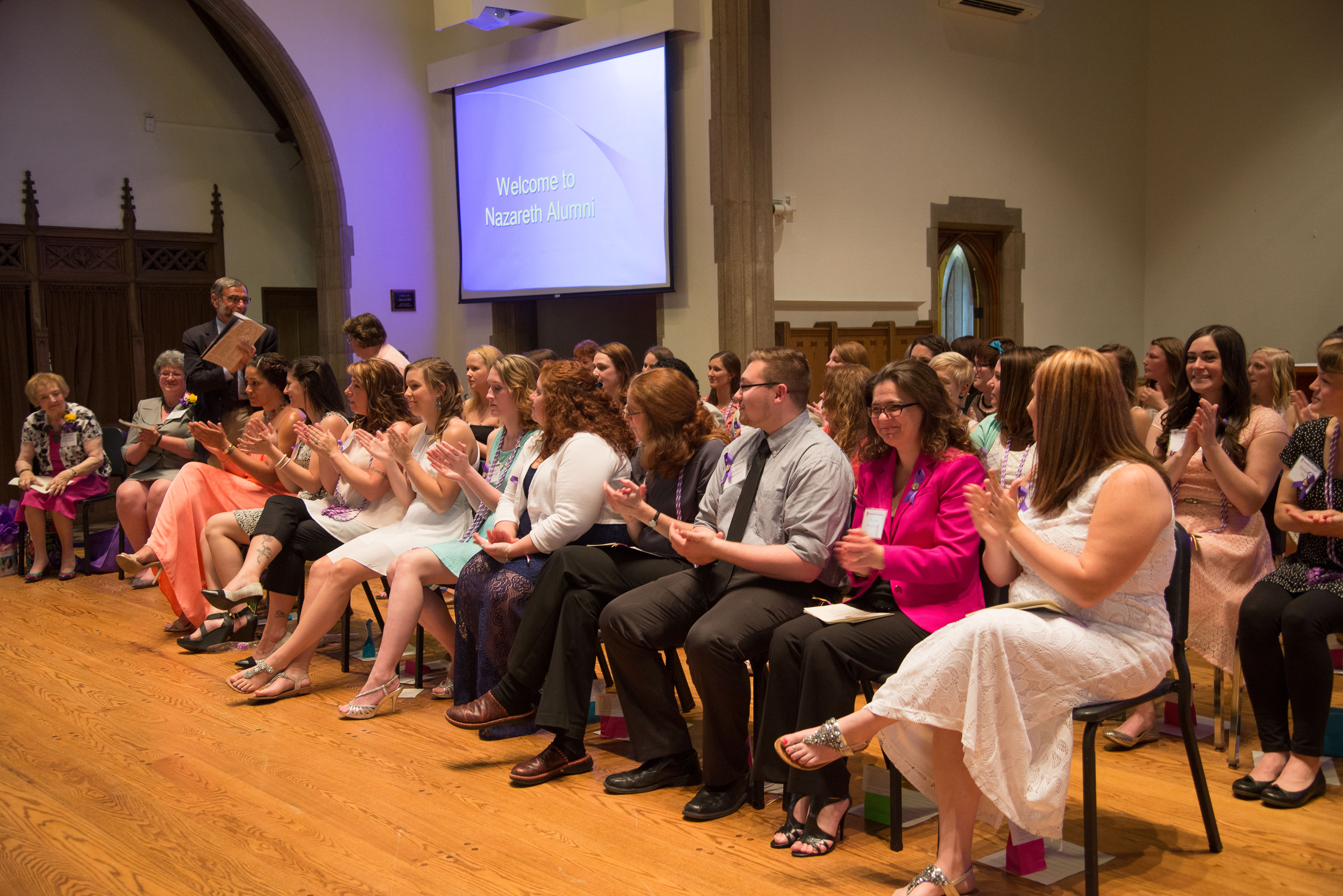 Nurse pinning ceremony in Linehan Chapel